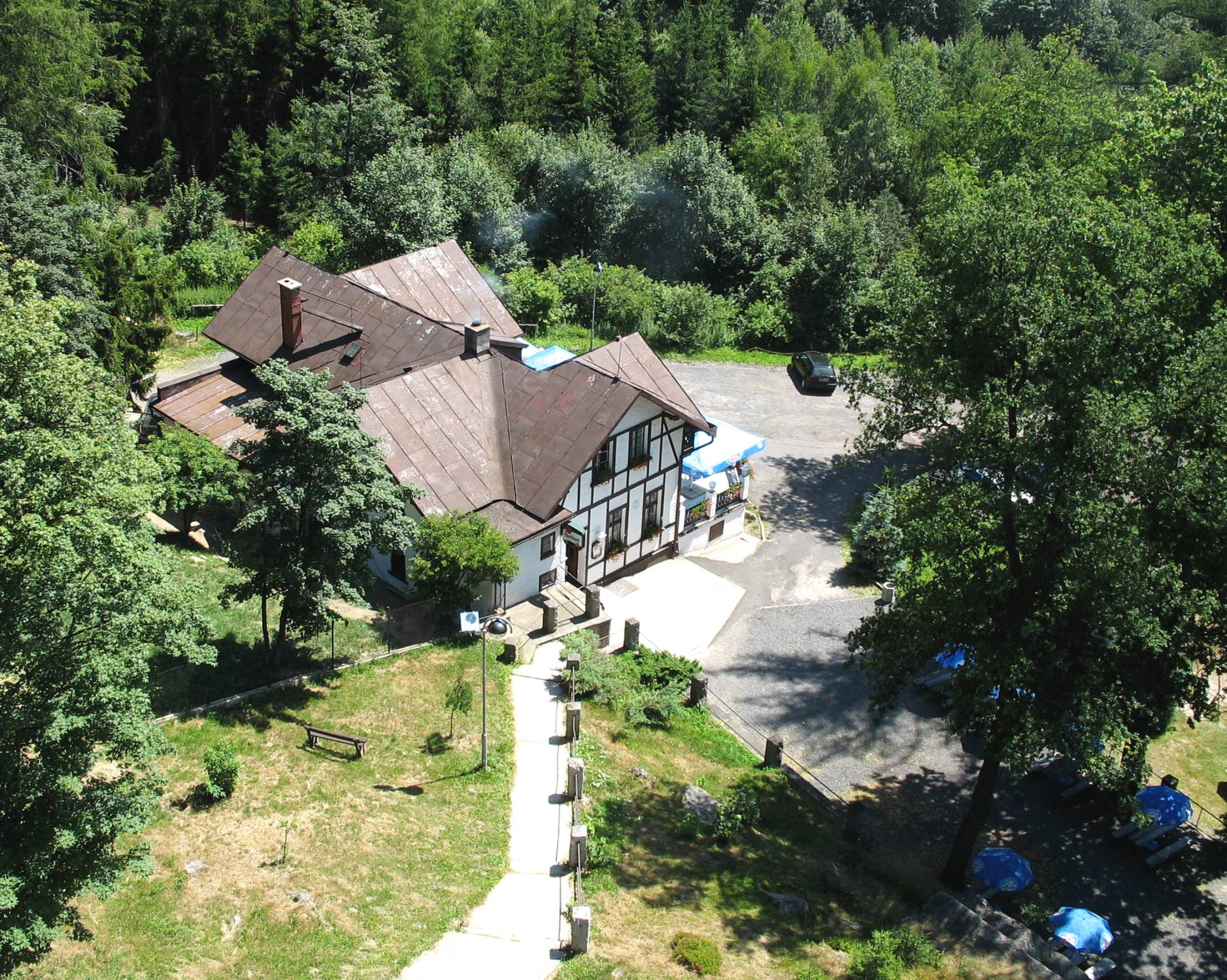 The hut on peak of mountain Háj, Fichtelgebirge, Czech Republic